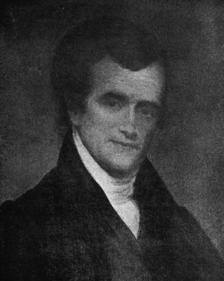 Archibald Alexander